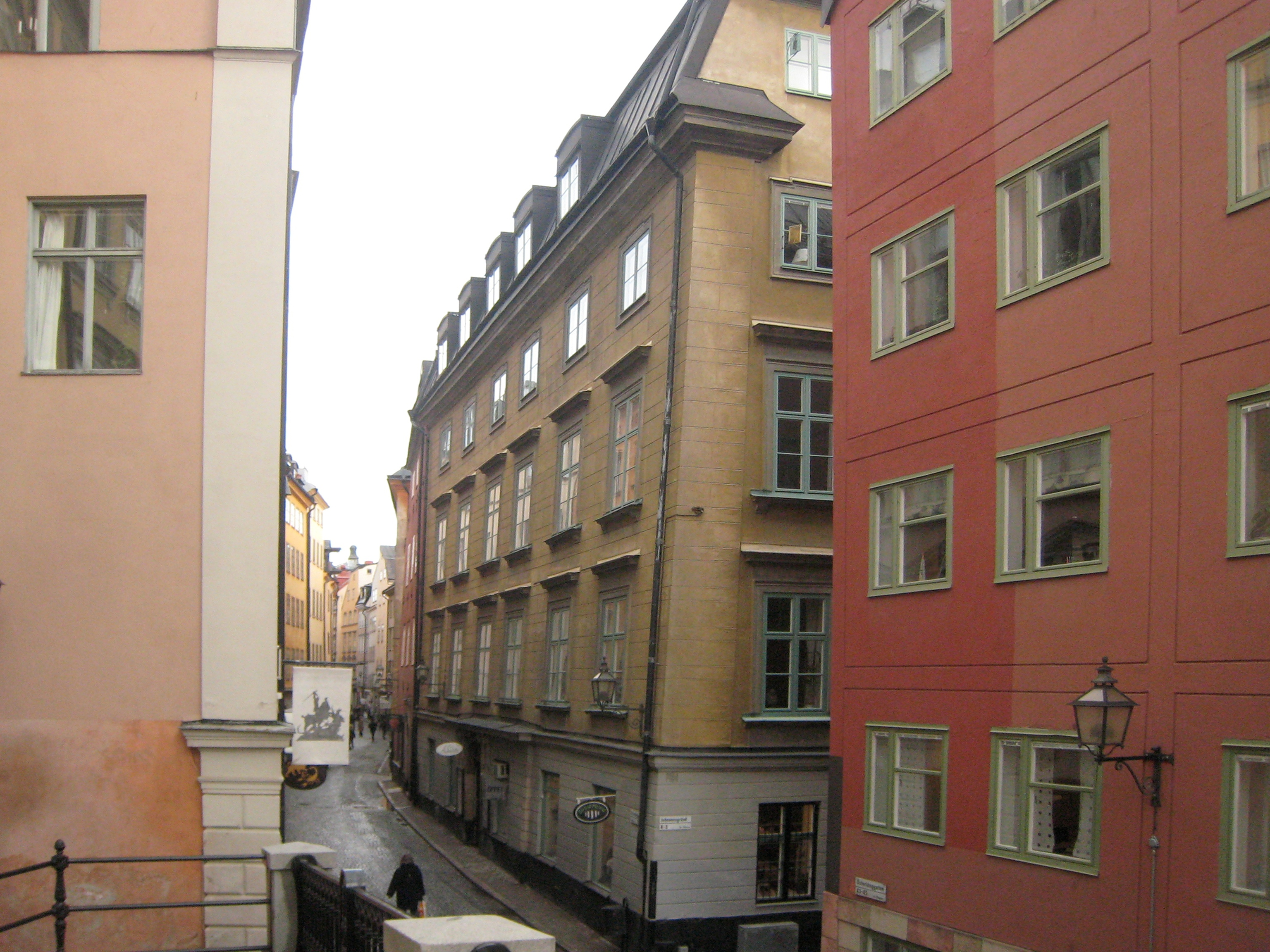 Österlånggatan i korsningen mot Johannesgränd. I mitten kvarteret Glaucus med Österlånggatan 41.